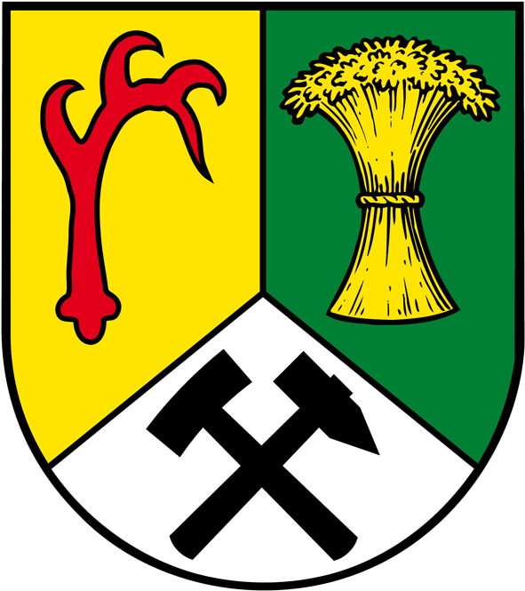 Coat of arms of Hüttenrode, Part of Blankenburg